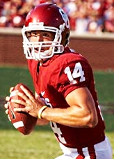 Sam Bradford, quarterback for the Oklahoma Sooners football team, prepares to pass.